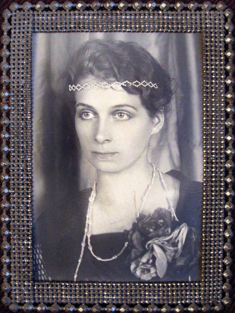 German writer and translator Maria Schwauß at the age of 29, 1918